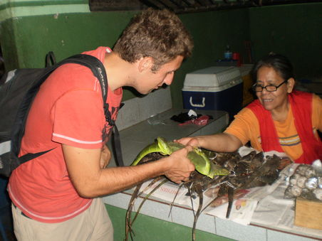 A tourist buying an iguana to eat on market in León Nicaragua